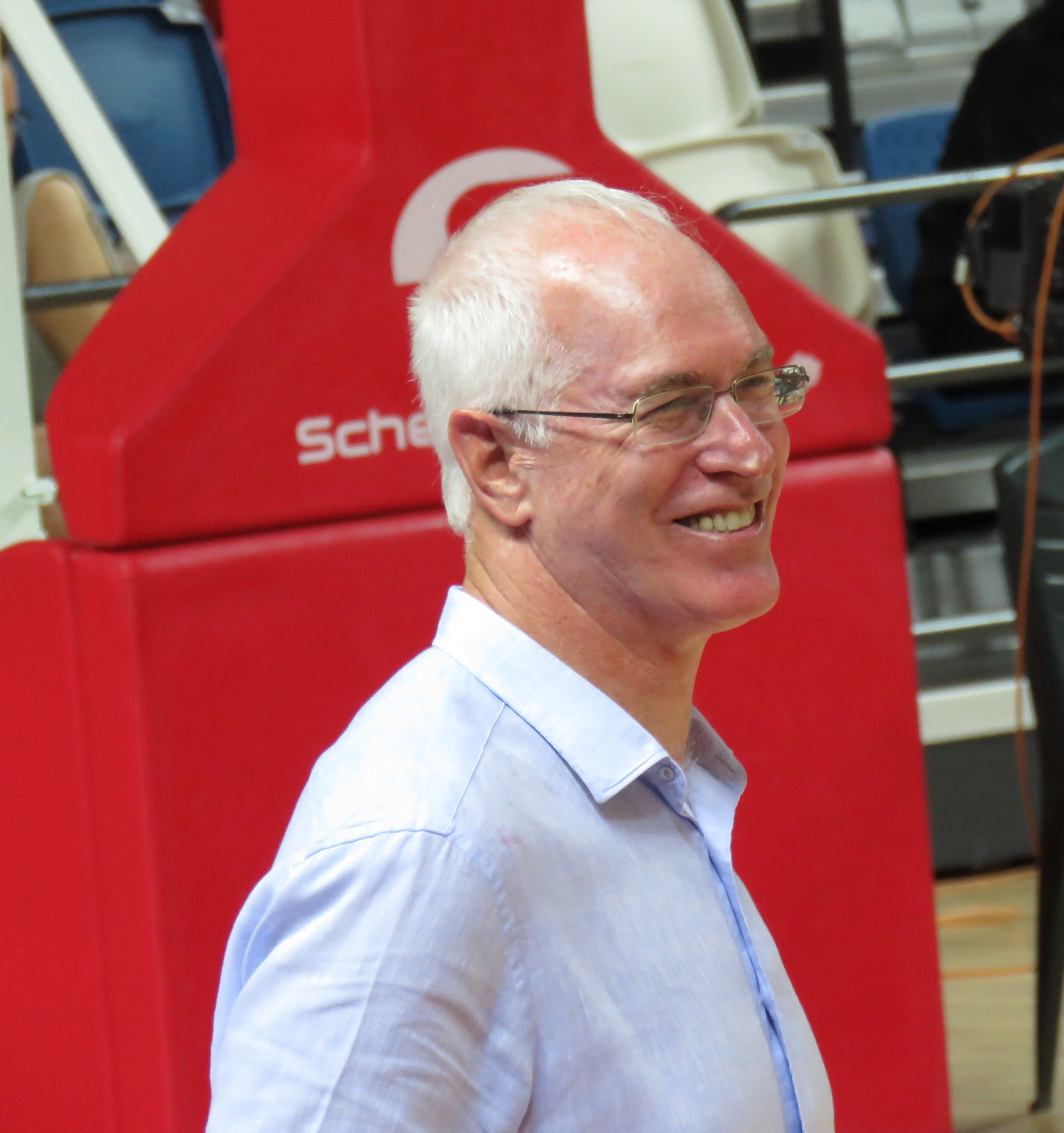 Hapoel Eilat vs. Maccabi Haifa B.C., 25 September, 2015